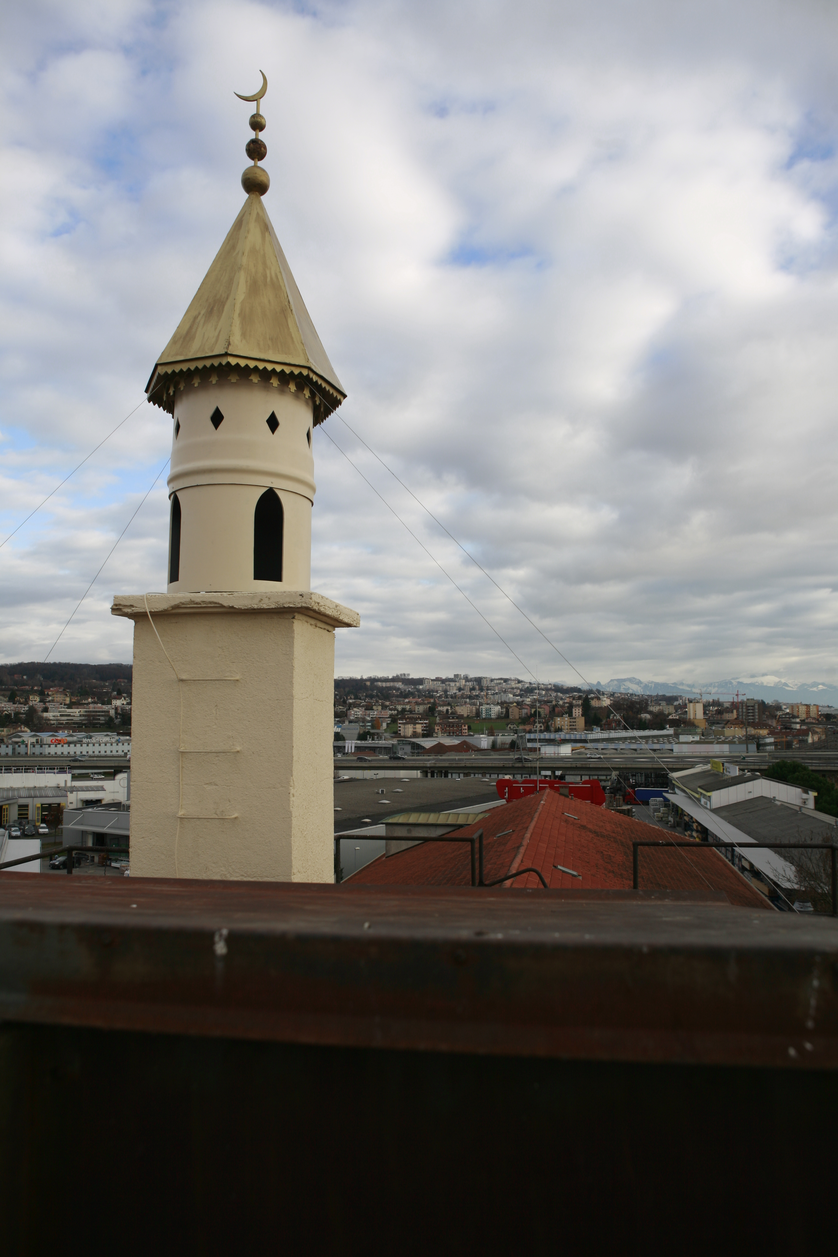 Bussigny mock minaret, erected on a chemney on the roof of Pomp It Up shoe store in protest against the referendum of November 2009